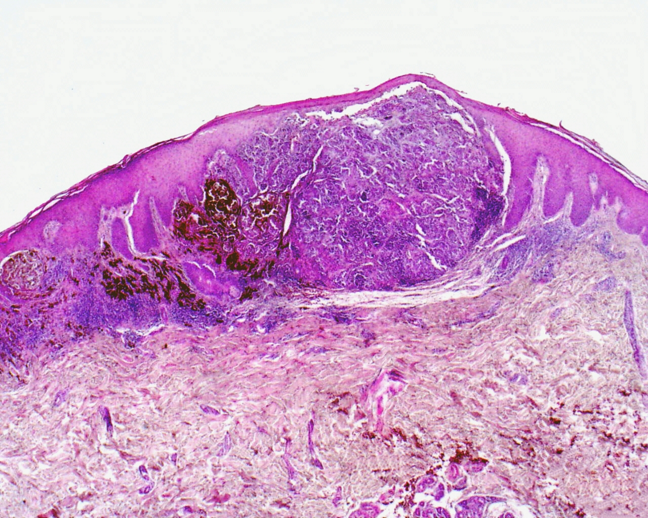 Nodular melanoma